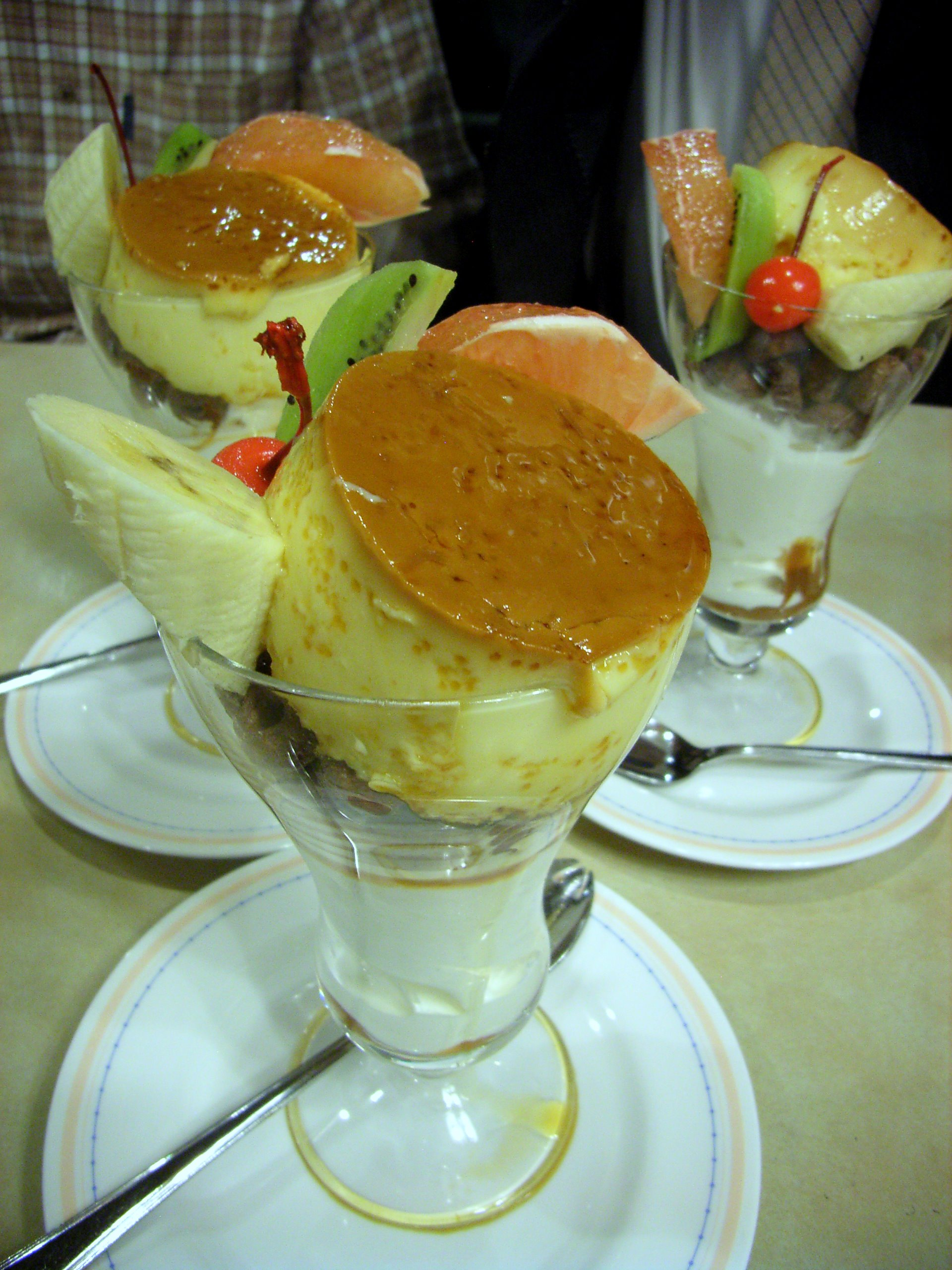 Pudding (flan).